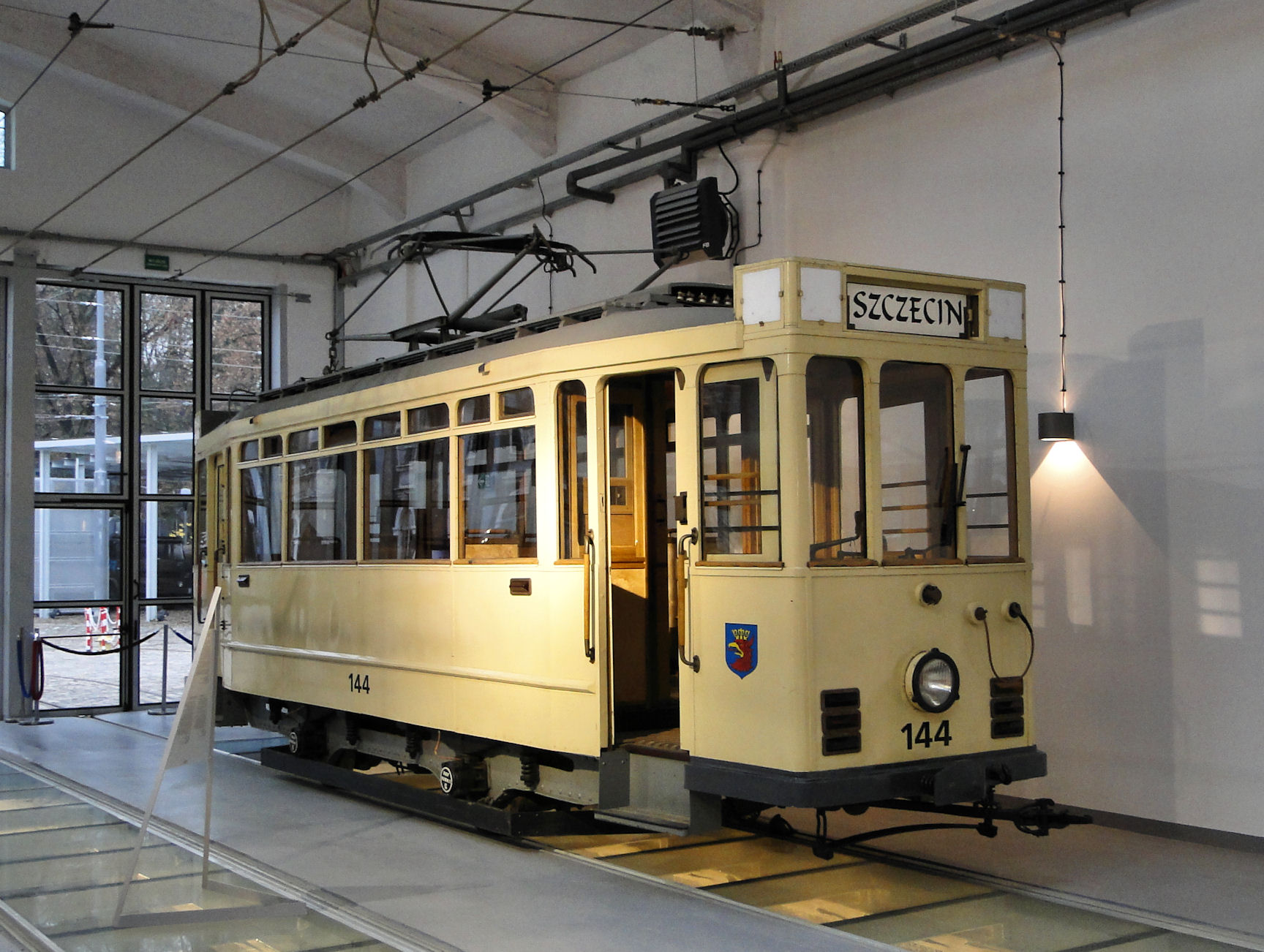 Nordwaggon Bremen tram (#144) in Szczecin, Poland. Built 1926.